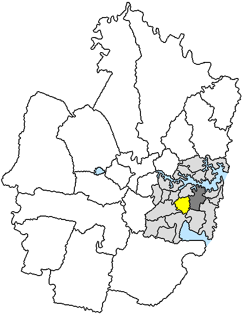 Map of Sydney/New South Wales/Australia, LGA of Marrickville highlighted